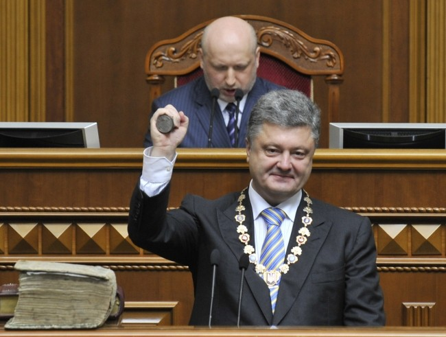 Petro Poroshenko presidential inauguration, 7th June 2014